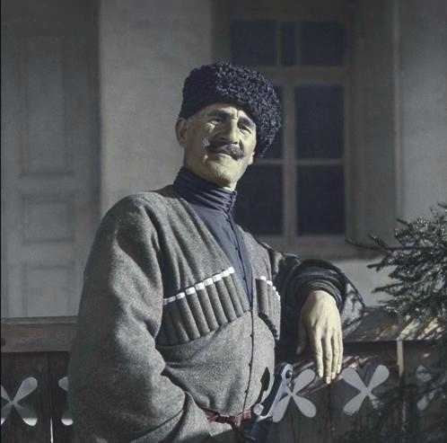 Мусахан Дадешкелиани (Musahan Dadeshkeliani), a Svanetian men. On January 30, in the Tbilisi History Museum, “Karvasla,” Ambassador John Tefft opened an exhibit of 90 photographs and 2 documentary films taken in Georgia by the American glaciologist and photographer, William Osgood Field, in the 1920’s and 1930’s..